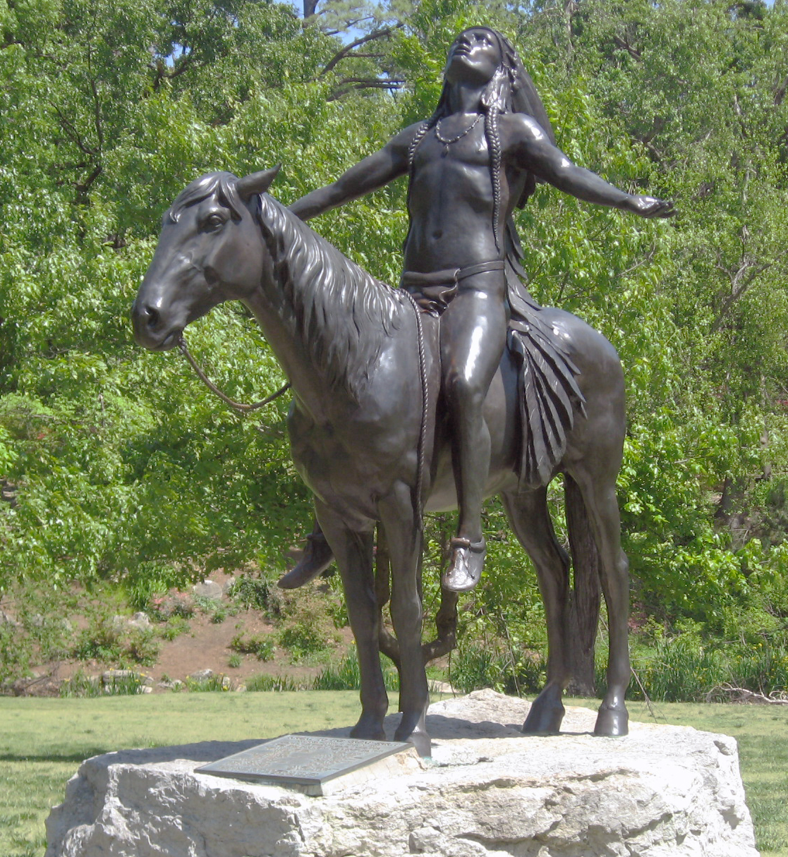 One-third-size version of Appeal to the Great Spirit, Indian statue in Woodward Park.